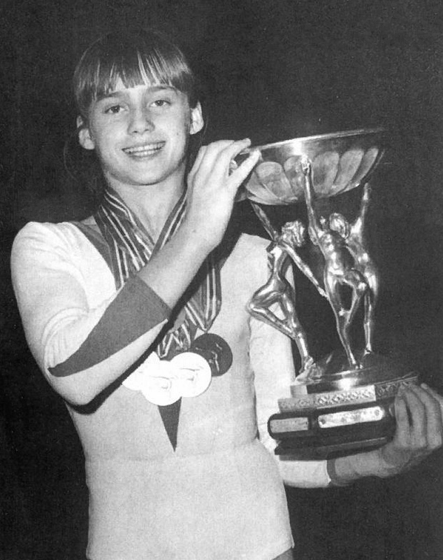 Nadia Comăneci at the 1977 European Championships in Prague